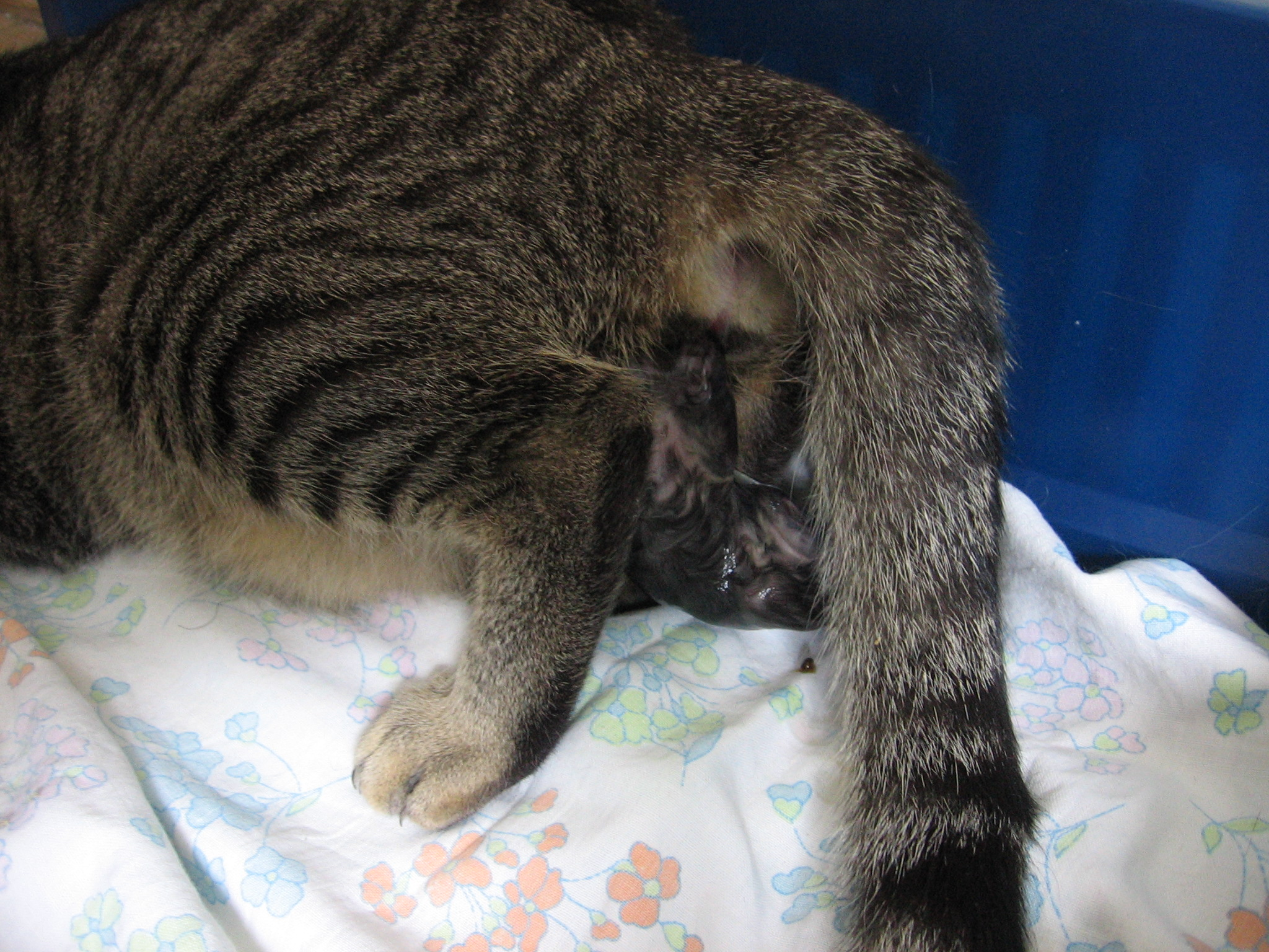 Domestic cat birth